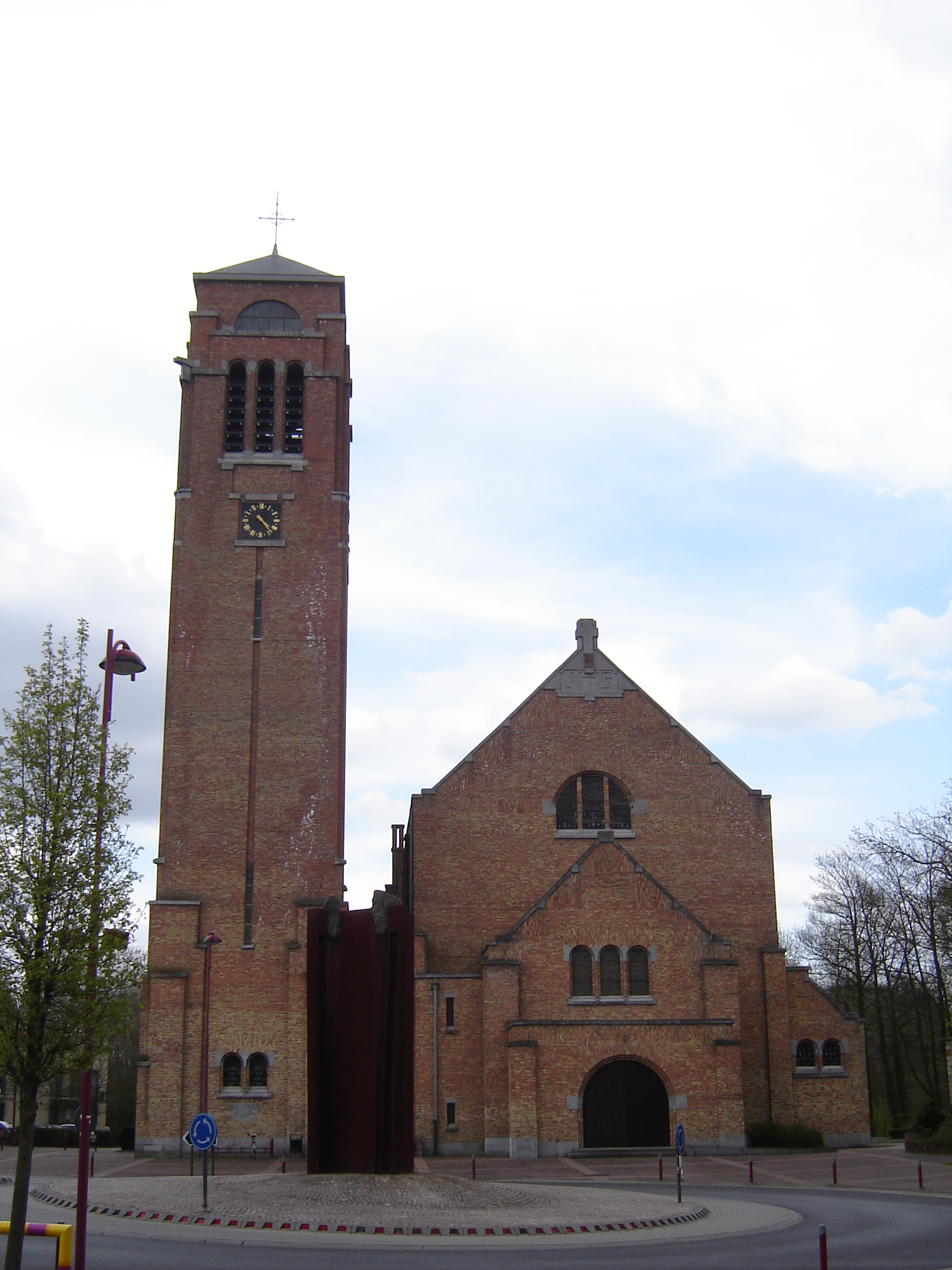 Church of Our Lady in Zonnebeke. Zonnebeke, West Flanders, Belgium